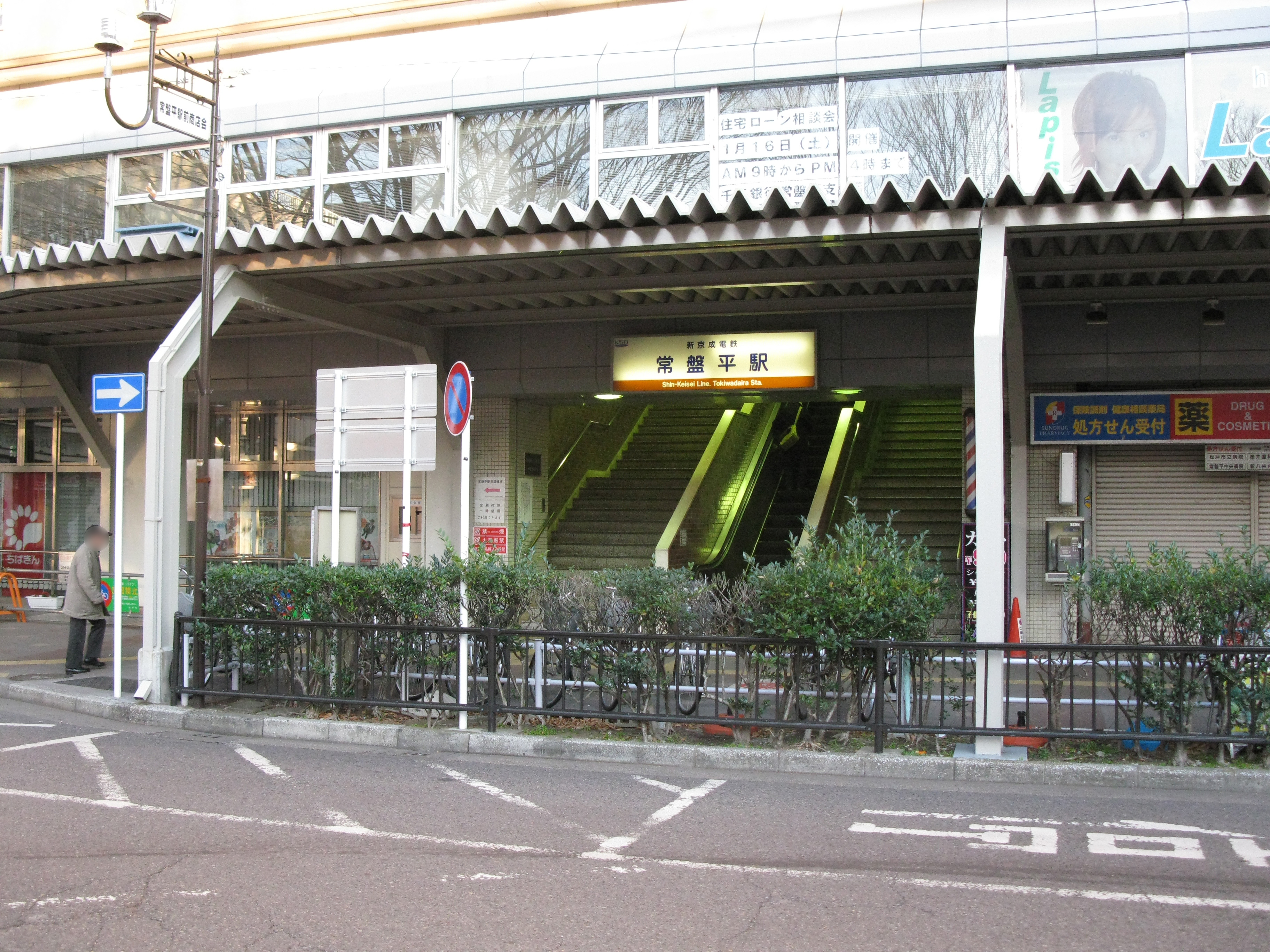 Tokiwadaira Station south entrance (Shin-Keisei Electric Railway Shin-Keisei Line)